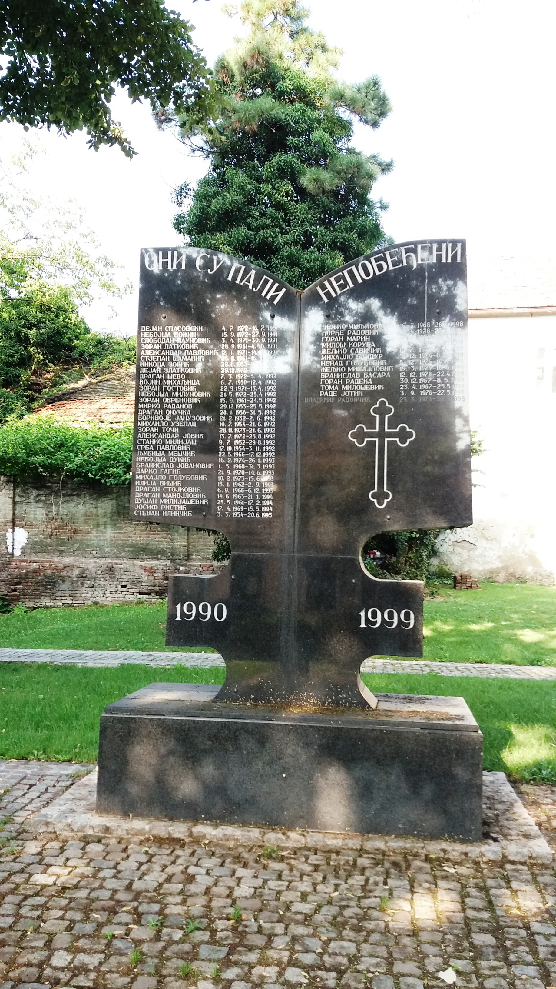 Monument to fallen soldiers in the wars of 1990-1999 in Zemun